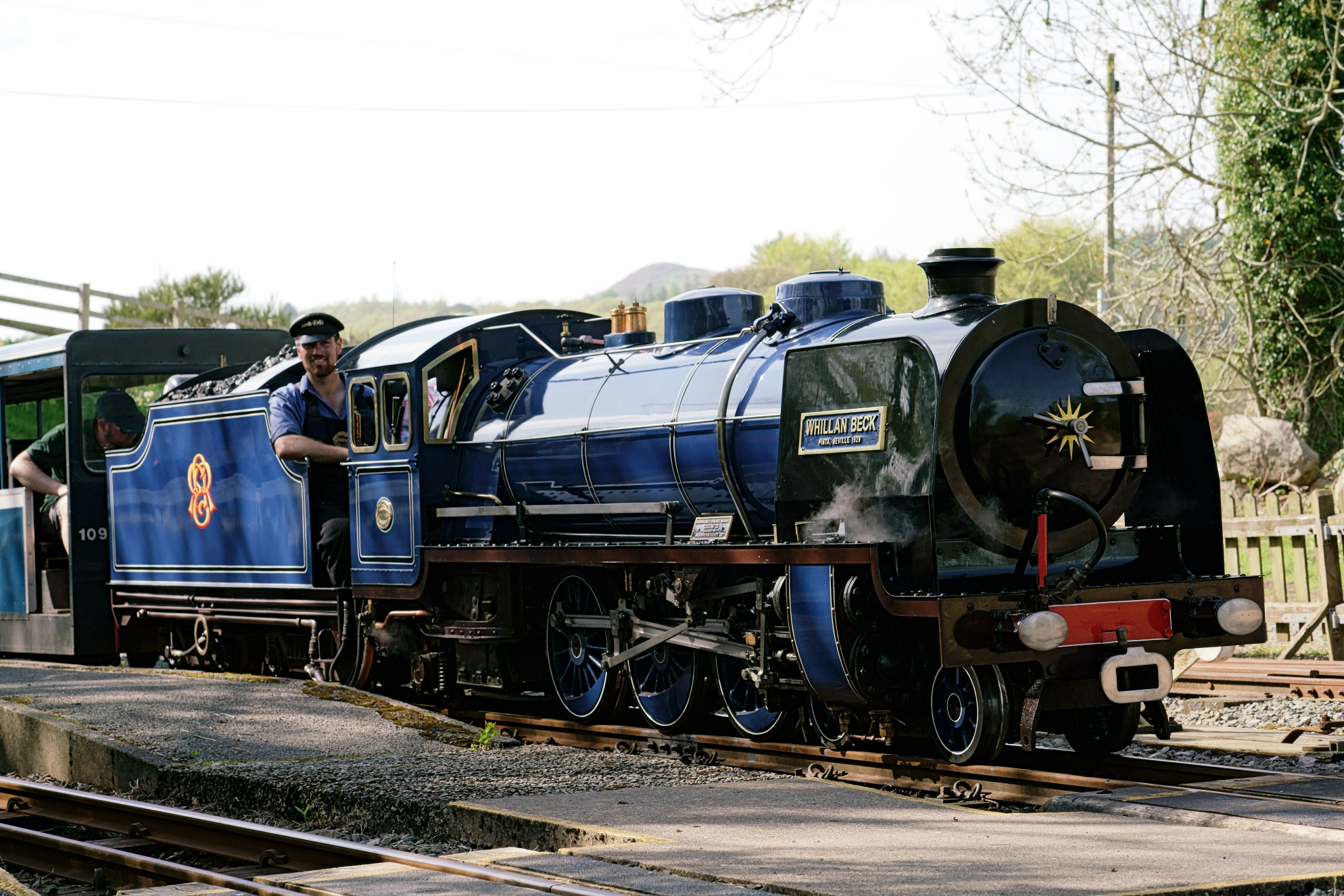 Ravenglass & Eskdale Railway.